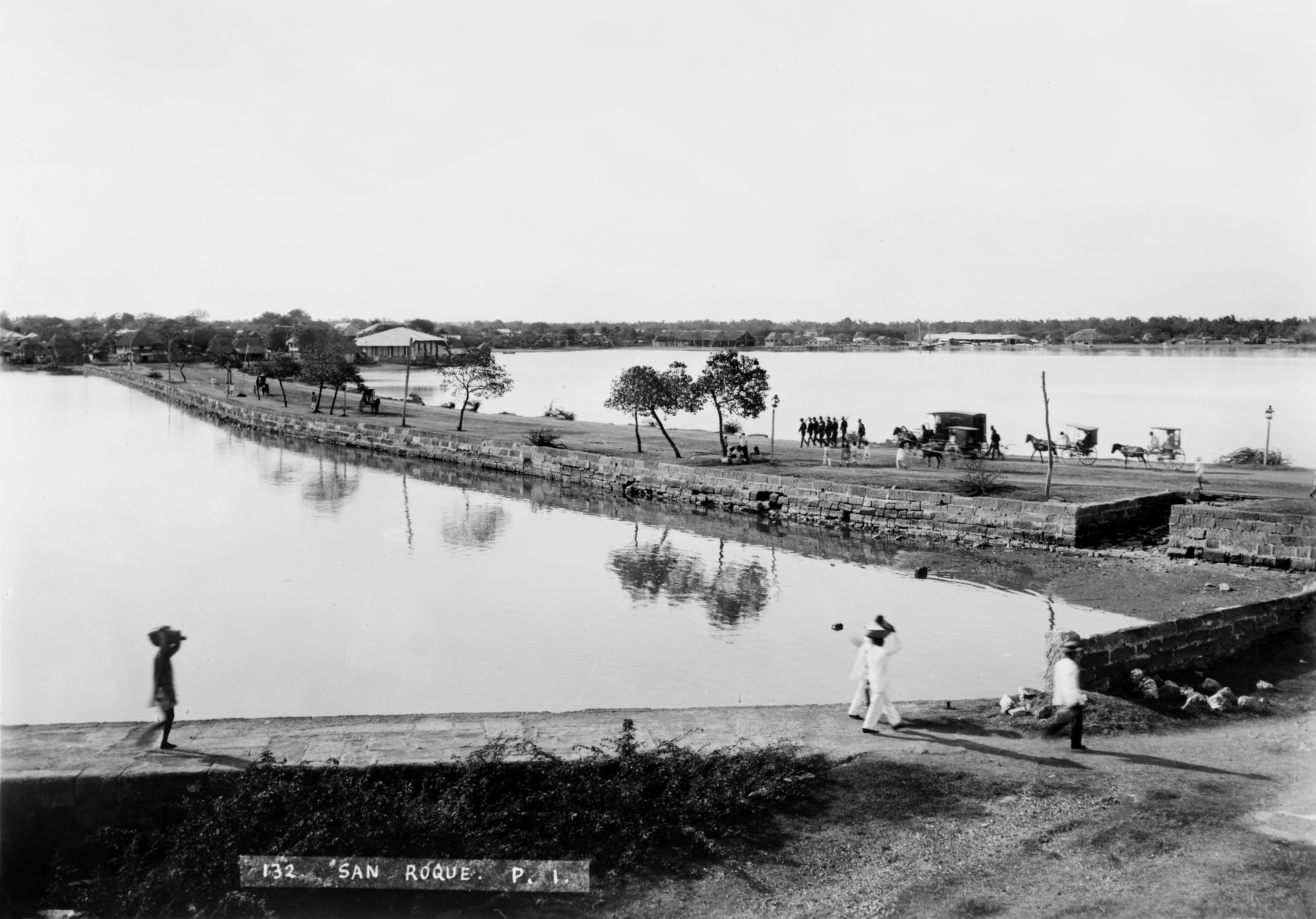 The San Roque Causeway connecting Cavite City to the town of San Roque — as it appeared in 1899 with people and carriages along waterfront. The street is now called M. Valentino St. The portion of Cañacao Bay to the right was reclaimed (filled in) around 1960s-1970s. It is now the location of the City Hall of Cavite.